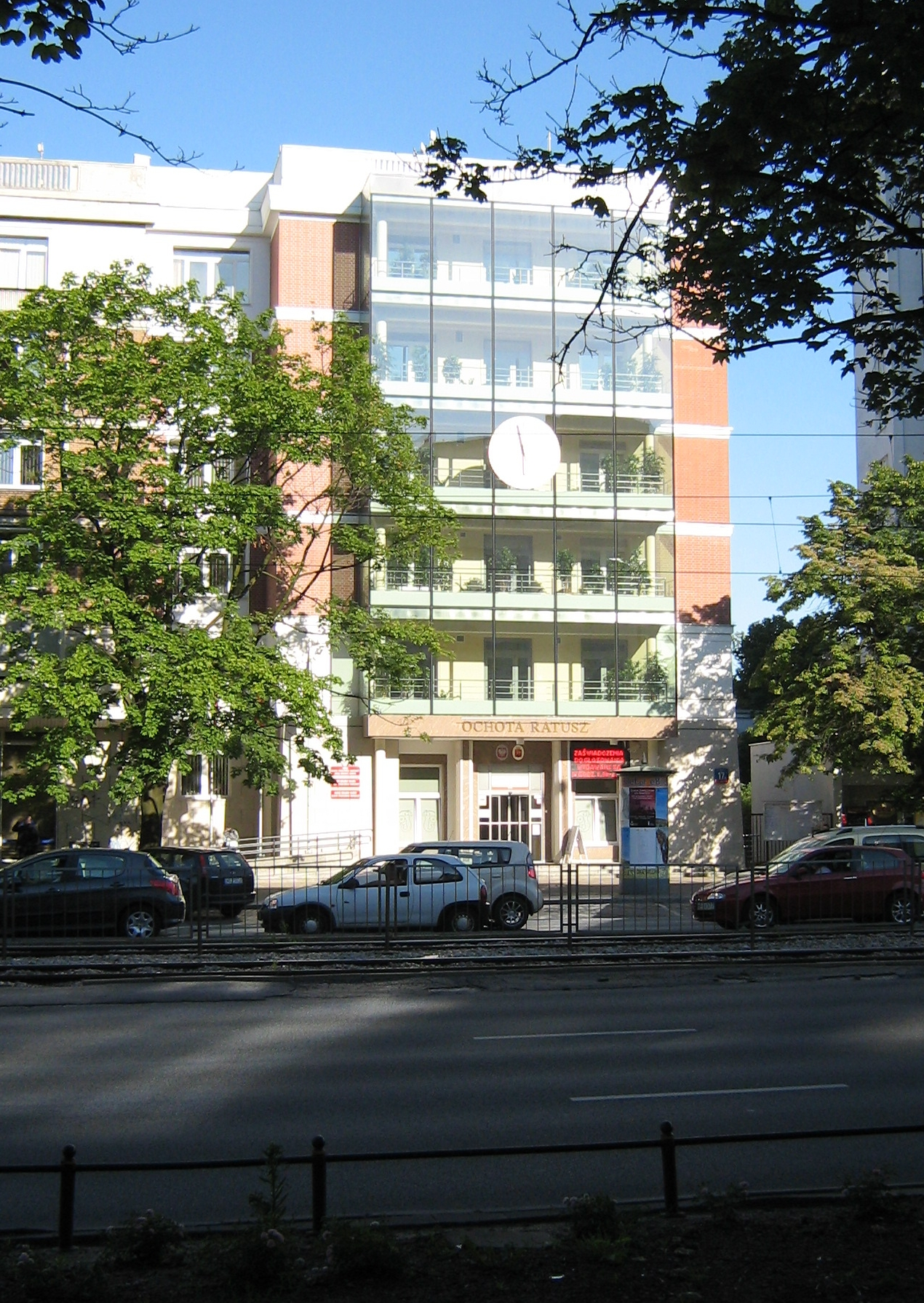 Ochota (Warsaw district) Town Hall. Grójecka St.